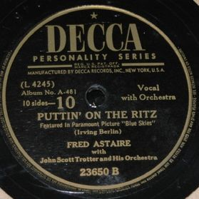 Puttin' on the Ritz Fred Astaire Irving Berlin cover